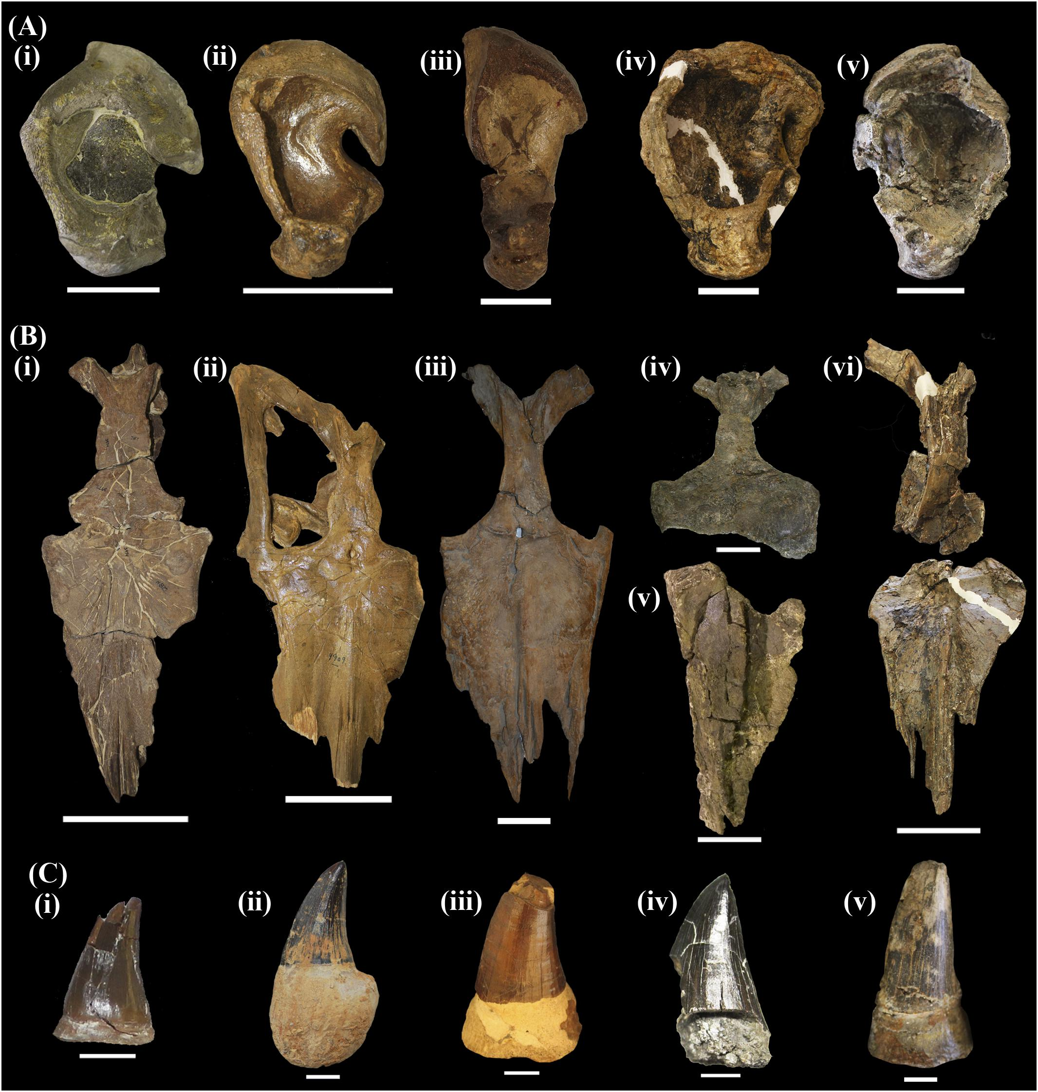 Comparison of cranial elements of different Tylosaurus species: (A) quadrate of: (i) T. nepaeolicus YPM 3970; (ii) T. proriger AMNH 4909; (iii) T. bernardi IRScNB 3672; (iv) T. pembinensis MDM M740506; (v) T. saskatchewanensis RSM P2588.1; (B) frontal and parietal of: (i) T. nepaeolicus YPM 3974; (ii) T. proriger AMNH 4909; (iii) T. bernardi IRScNB R23; (iv) T. pembinensis MMV 95; (v) T. pembinensis MMV 95; (vi) T. saskatchewanensis RSM P2588.1; (C) teeth of: (i) T. nepaeolicus YPM 3969; (ii) T. proriger AMNH 1543; (iii) T. bernardi IRScNB 3672; (iv) T. pembinensis MDM M770507; (v) T. saskatchewanensis RSM P2588.1. Scale bars of (A) equal to 50 mm, scale bars of (B) equal to 100 mm, scale bars of (C) equal to 10 mm.